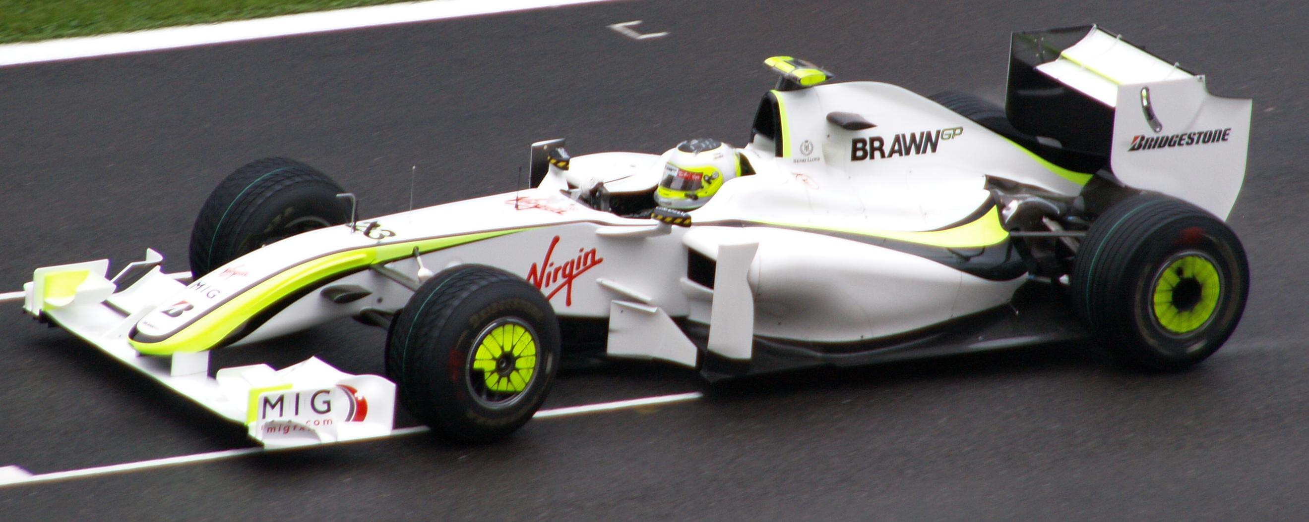 Rubens Barrichello driving for Brawn GP at the 2009 Belgian Grand Prix.